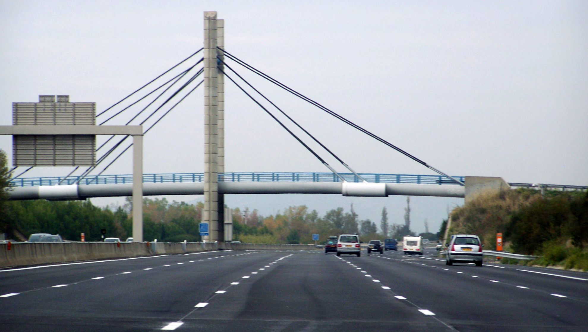 French autoroute A7 being joined by autoroute A9 near the city of Orange in Vaucluse. At this place can be found 5 lanes. The first three lanes on the left are those of A7 coming from Marseille, and the two on the right (ex-A9) come from Montpellier.